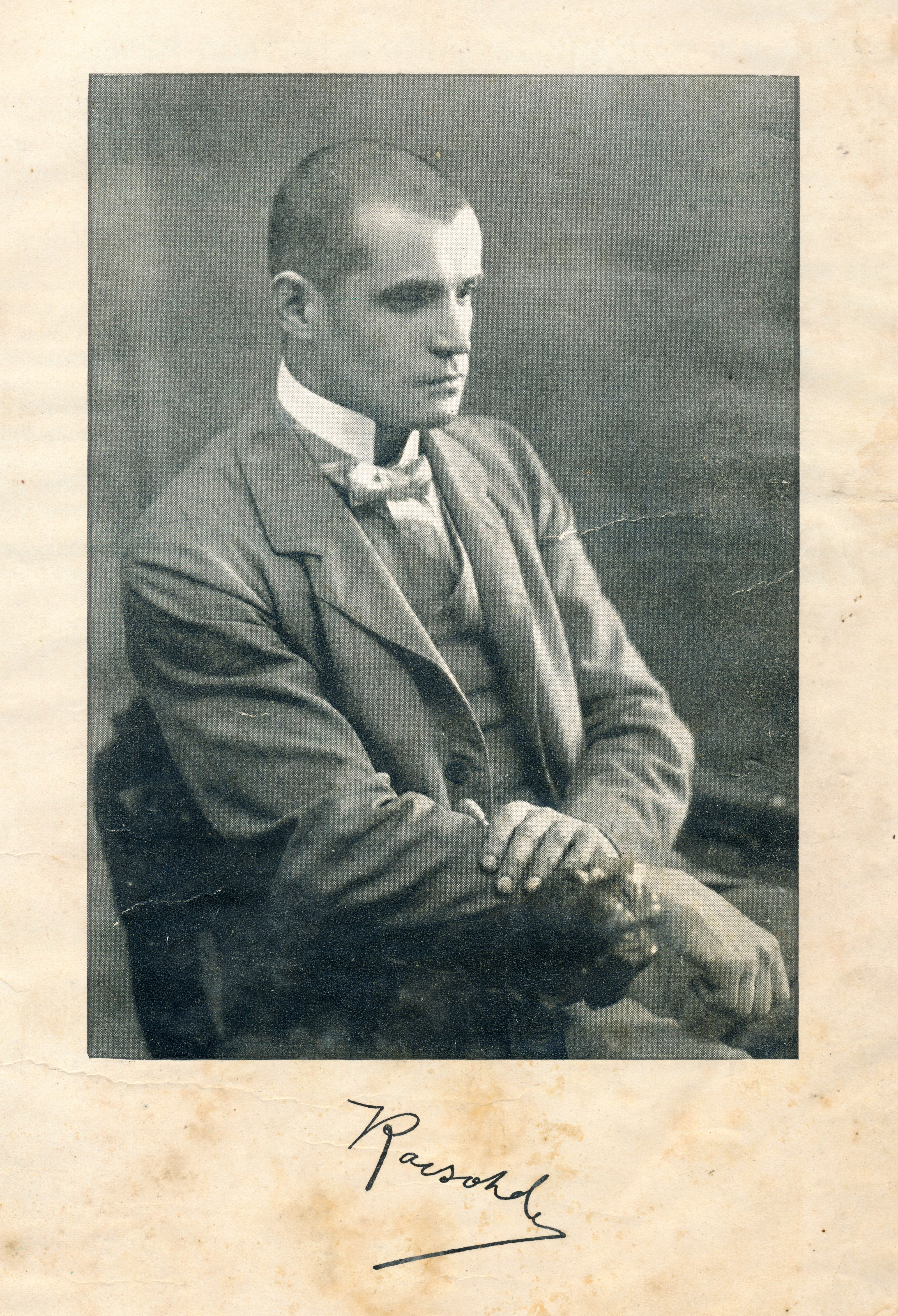 Pongarcz Kacsoh-János Vitéz operetta musicbook first edition 1904 - internal page Photo and sign: Kacsóh Pongrác Phootographer unknown, not indicated